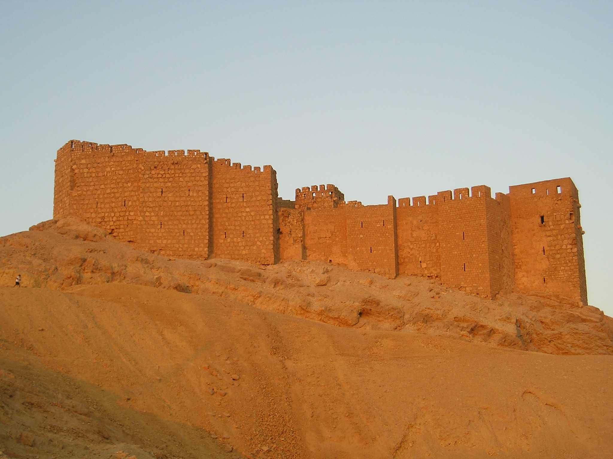 Palmyra, Syria - Qalat ibn Maan at the sunset